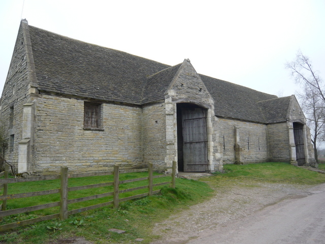 The Tithe Barn at Ashleworth, Gloucestershire